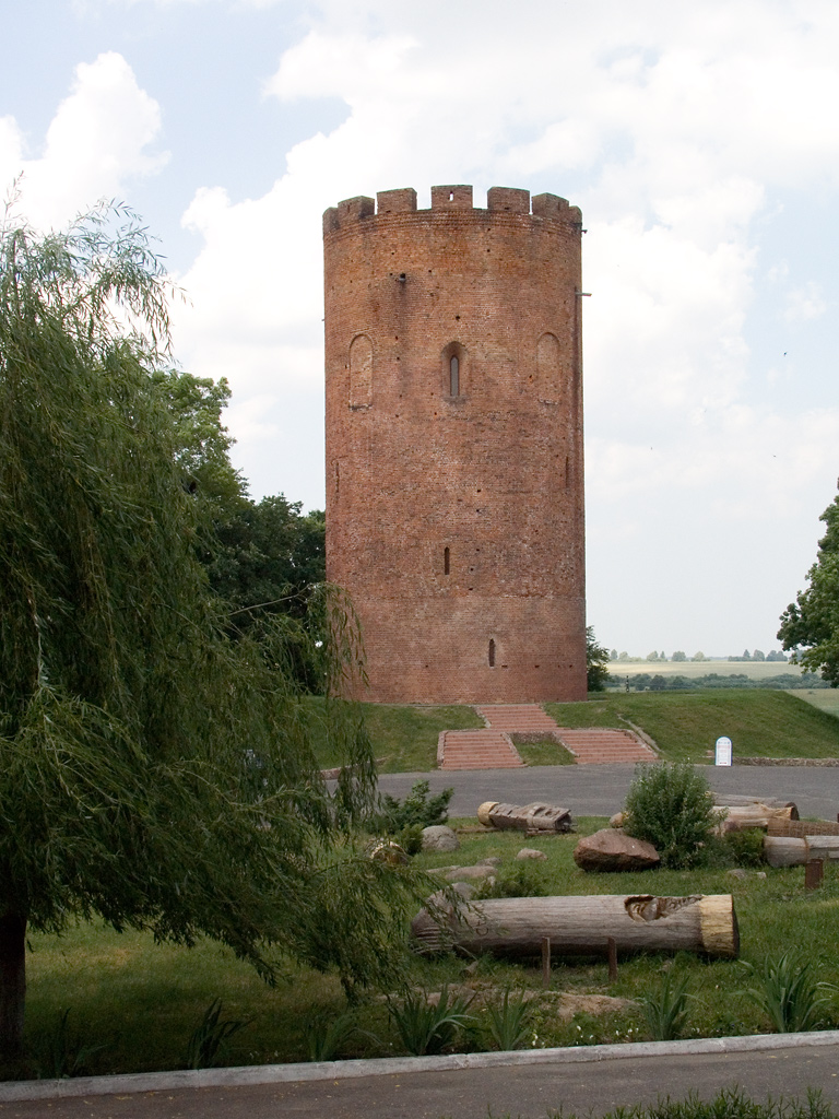 The tower of Kamyanets today.